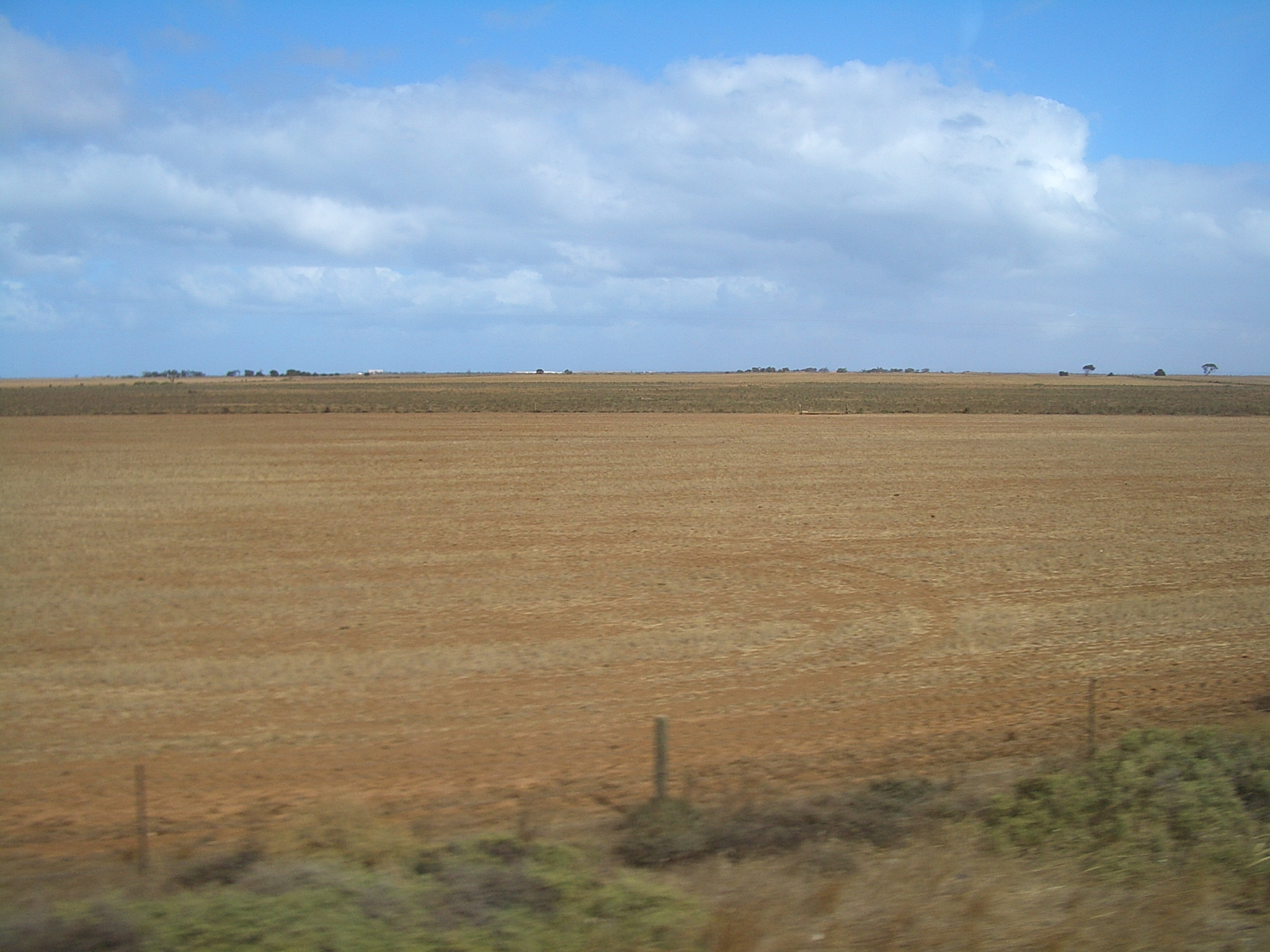 Looking west from the Adelaide-Port Wakefield Hwy, not far from Port Wakefield. Just steppe - or maybe harvested wheat field.